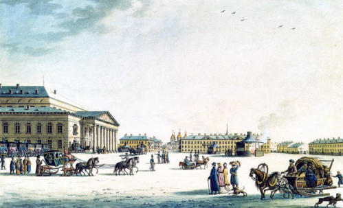 View of Theatre Square in Saint Petersburg